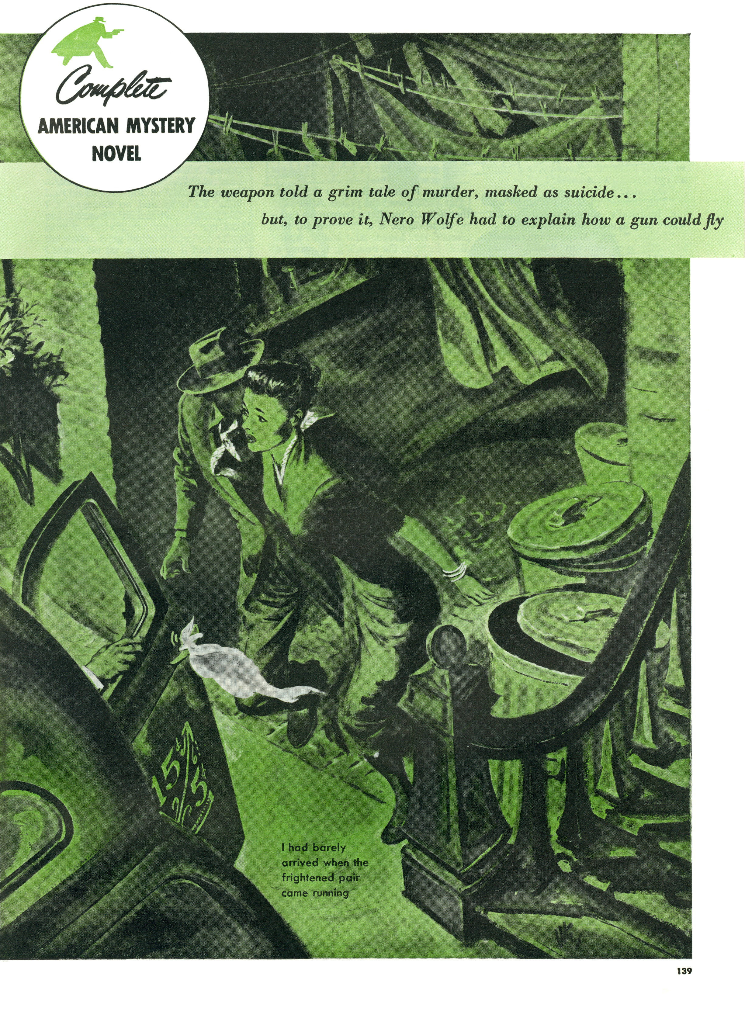 Illustration from The American Magazine printing of "The Gun with Wings", the first appearance of the Nero Wolfe short story by Rex Stout